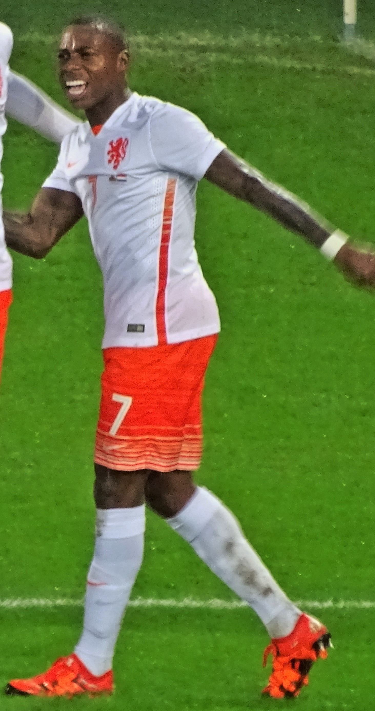 Quincy Promes